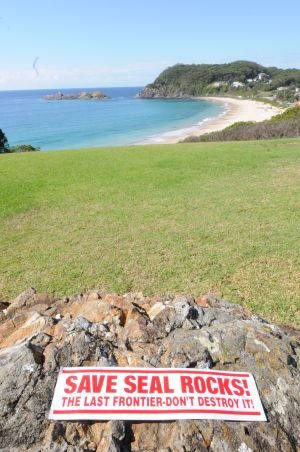 Seal rocks save seal rocks sign